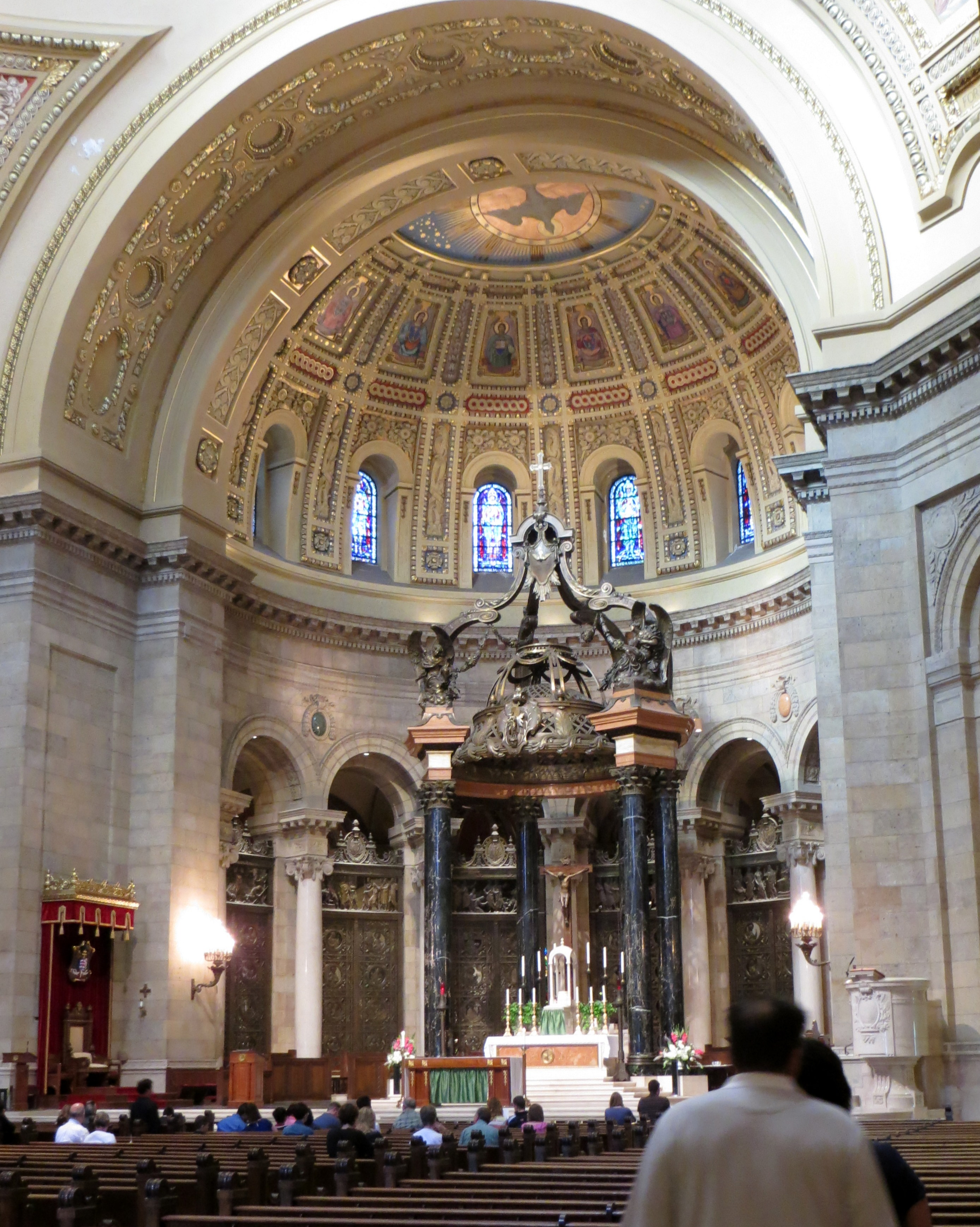 Cathedral of Saint Paul (St. Paul, Minnesota) - sanctuary